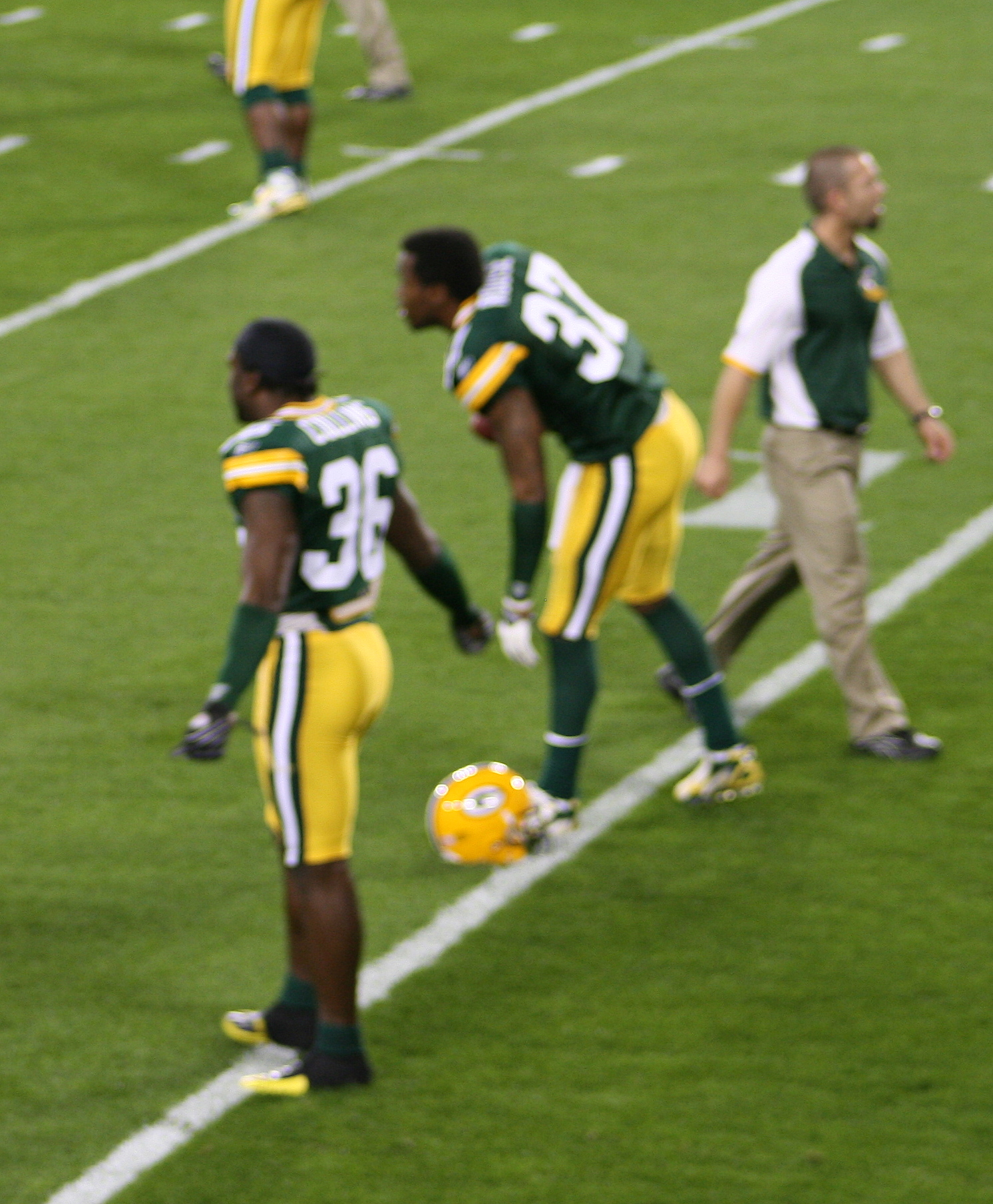 Green Bay Packers secondary stretching before the game, #37 Nick Collins and .